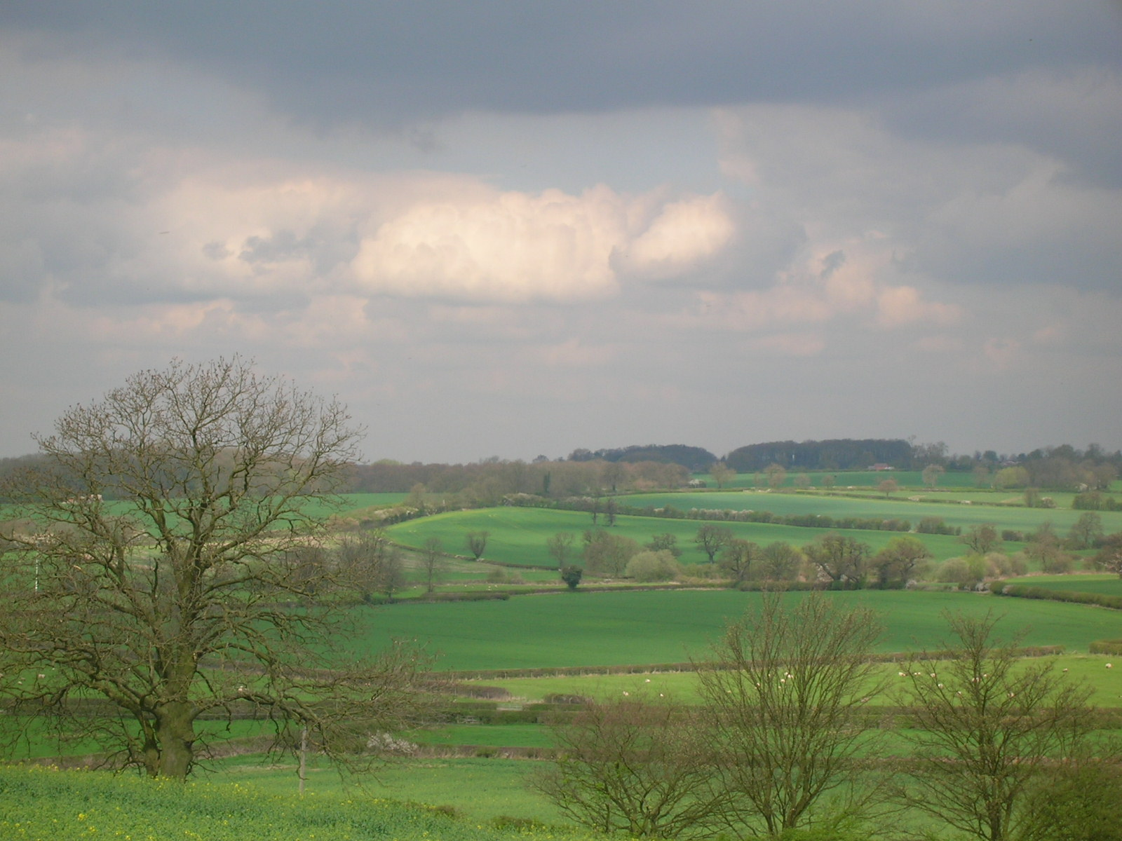 View from Ambion Hill, looking west